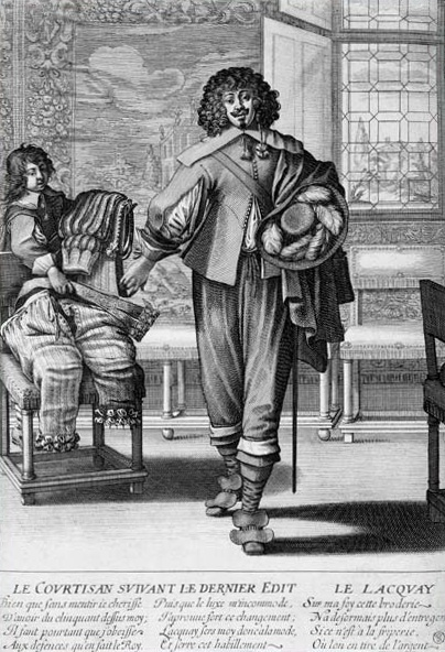 Le Courtisan suivant le Dernier Édit (etching portaying a courtier exchanging elaborate clothing for the sober dress demanded by the Edict of 1633)